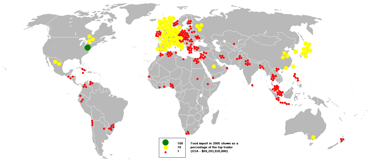 This bubble map shows the global distribution of food imports in 2005 as a percentage of the top trader (USA - $69,293,920,000). This map is consistent with incomplete set of data too as long as the top trader is known. It resolves the accessibility issues faced by colour-coded maps that may not be properly rendered in old computer screens. Data was extracted on 20th June 2007 from Based on Image:BlankMap-World.png